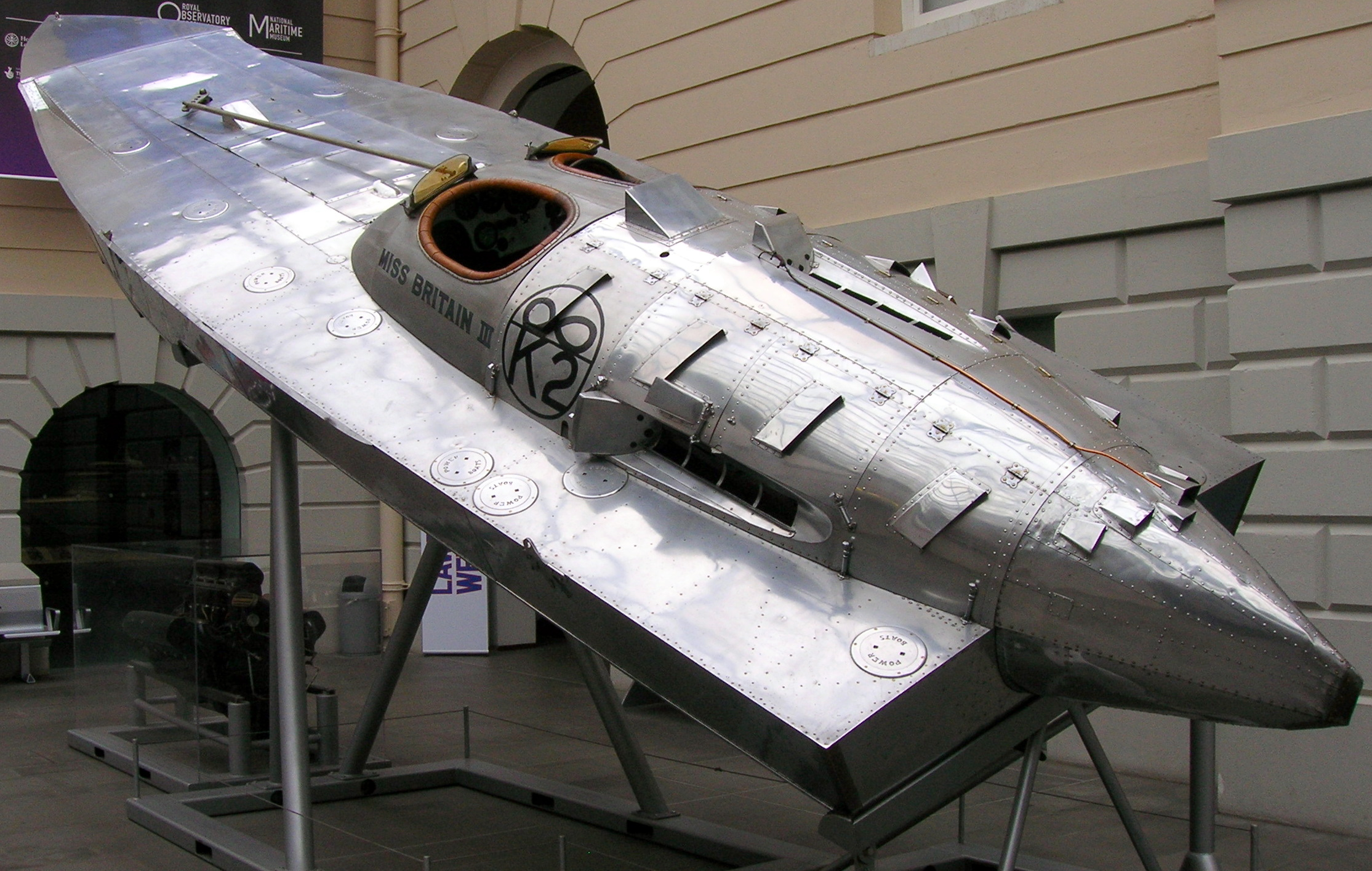 Miss Britain III, first single-engine powerboat to exceed 100 mph on open water.